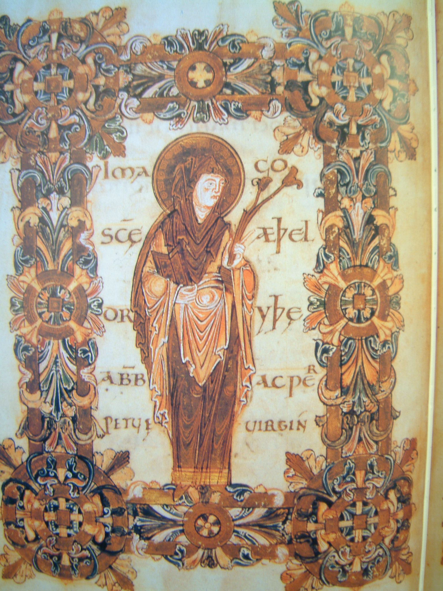 Saint Æthelthryth of Ely from the Benedictional of St. Æthelwold, illuminated manuscript in the British Library